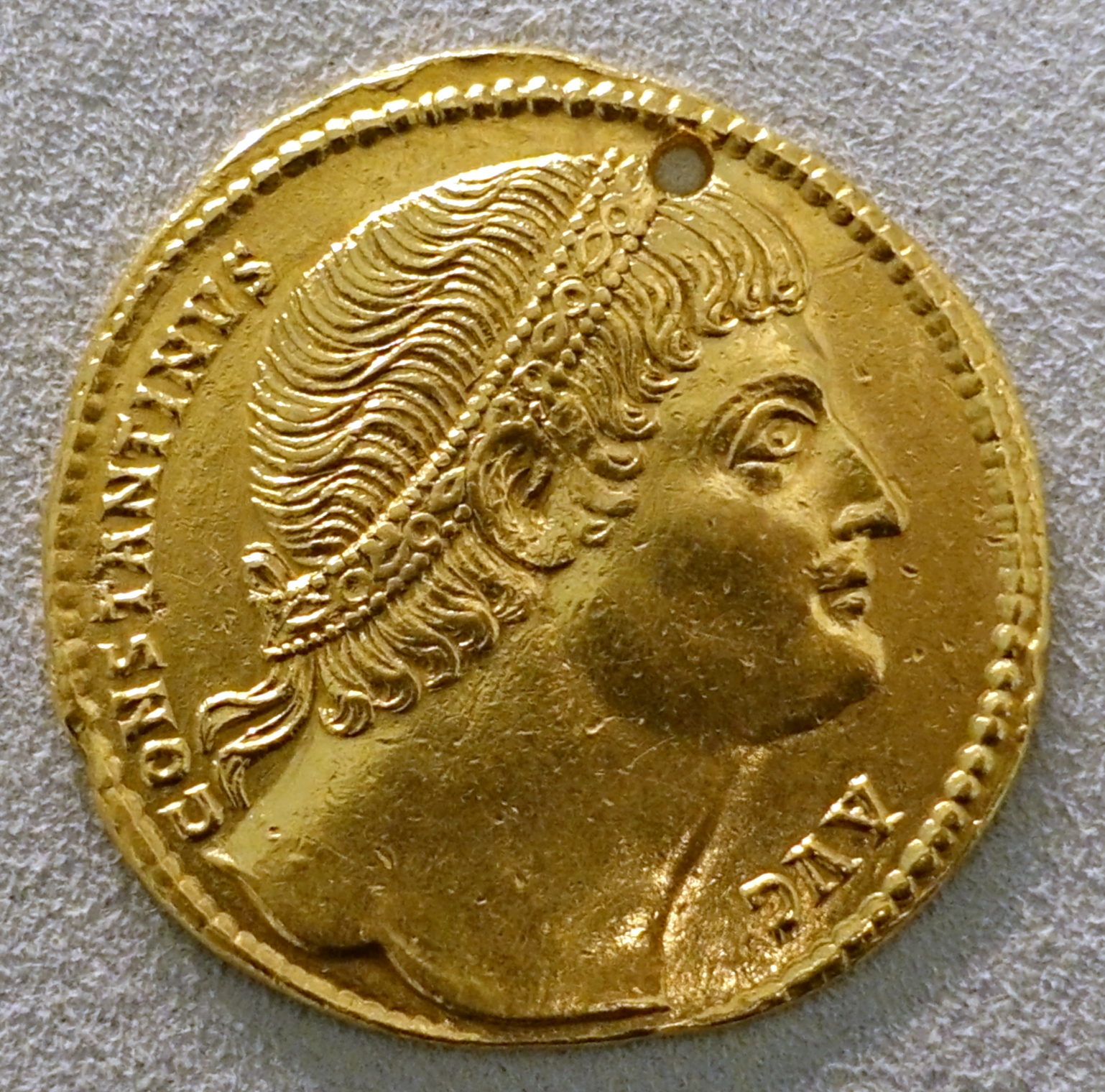 Exhibit in the Bode-Museum, Berlin, Germany. This work is in the public domain because the artist died more than 100 years ago.